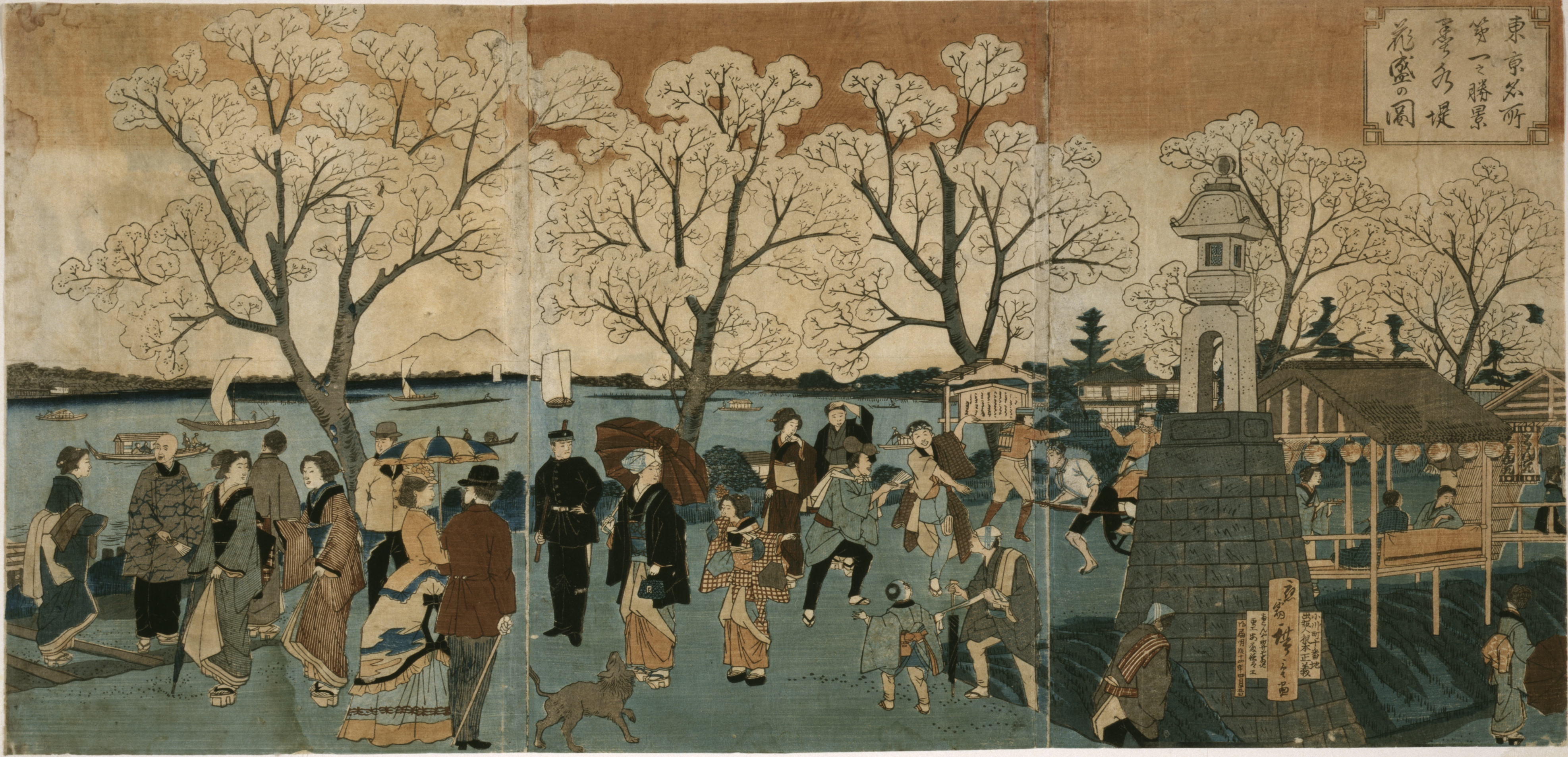 Japanese triptych print showing Japanese and foreign people walking along the Sumida River among cherry trees in full bloom. Title: Bokusui tsutsumi hanazakari no zu